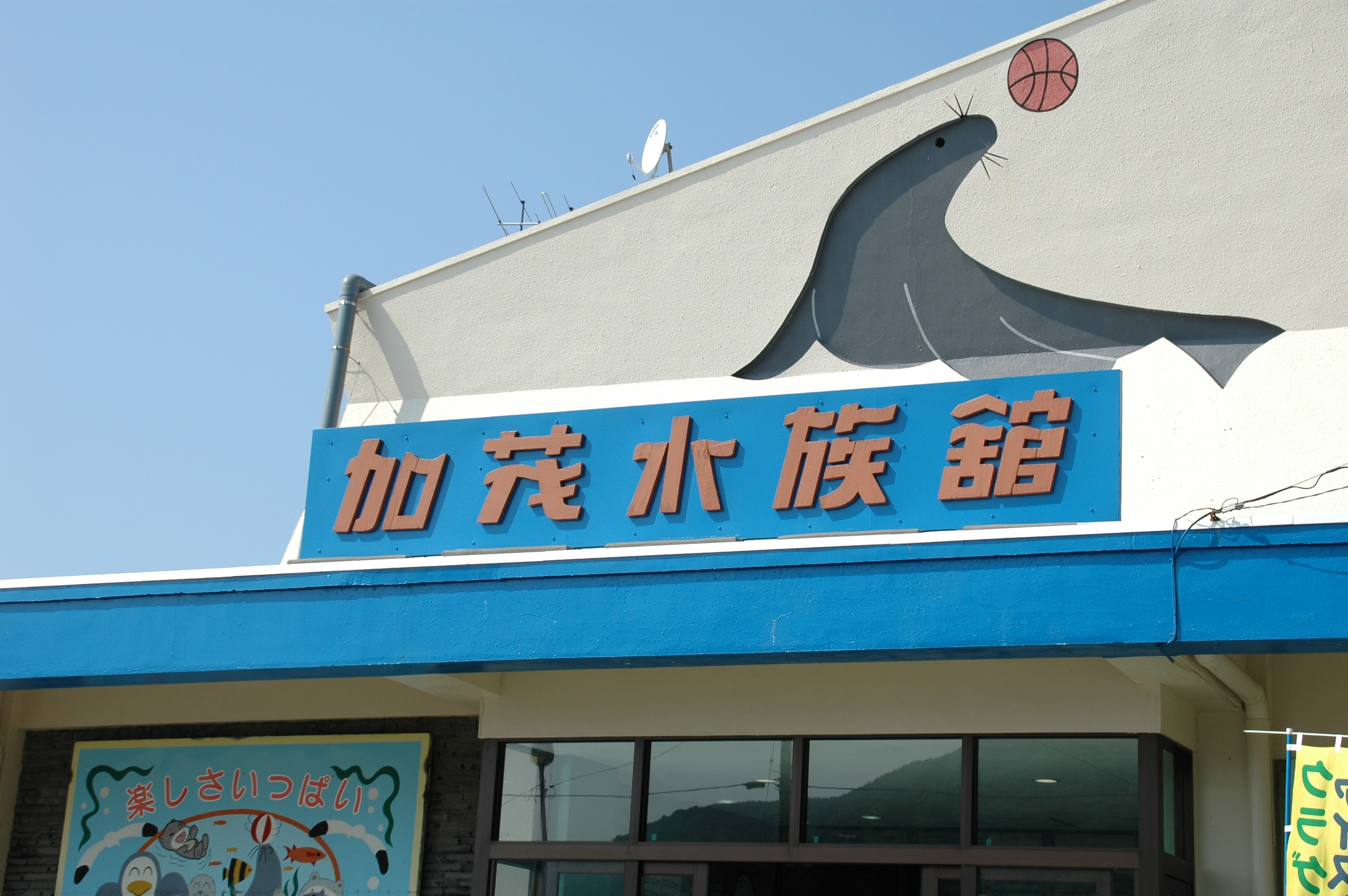 Yamagata Pref.(JAPAN) Kamo-Aquarium photo by 2005.8.6